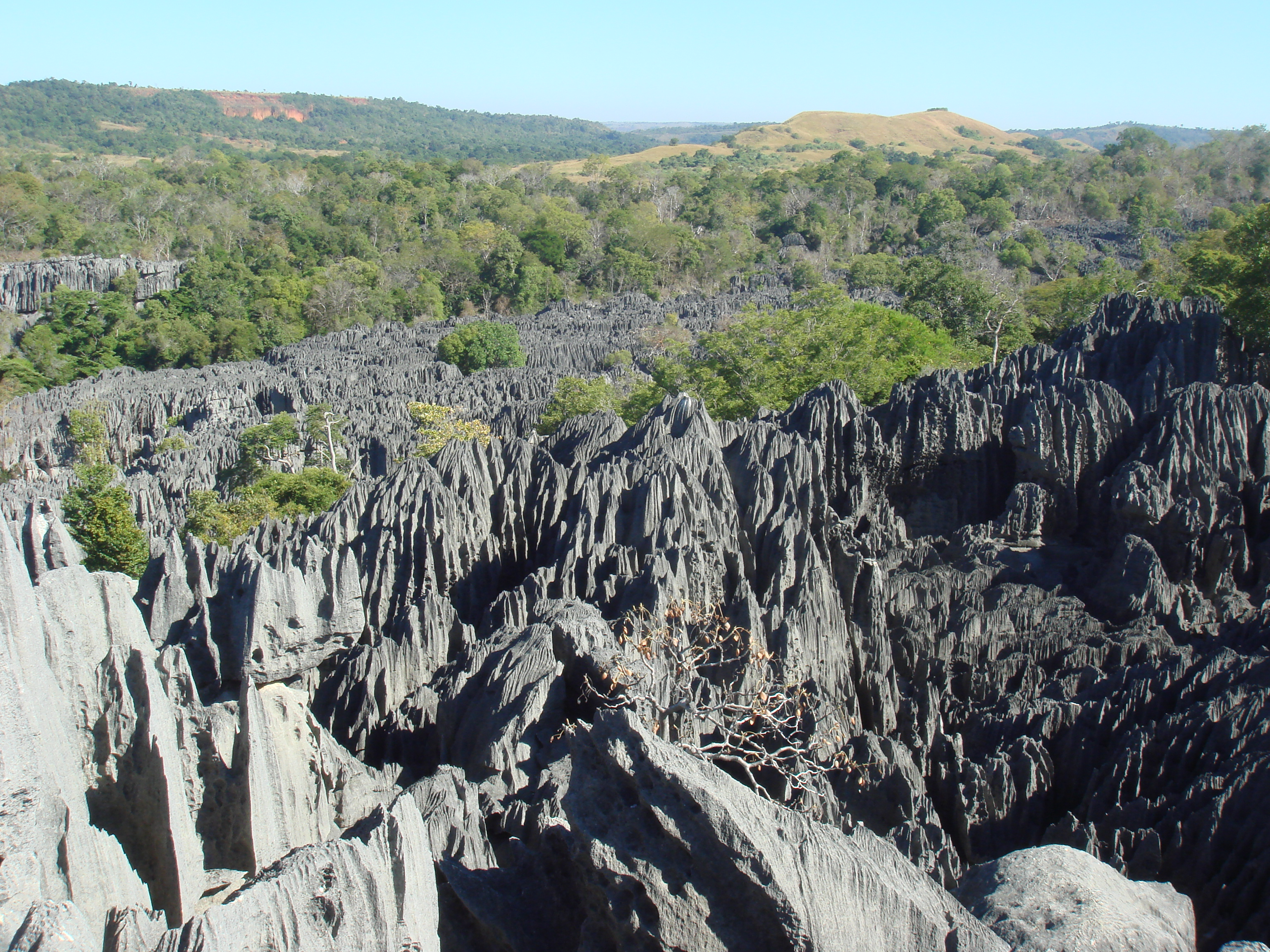 At the big Tsingy, Tsingy de Bemaraha Strict Nature Reserve, Madagascar